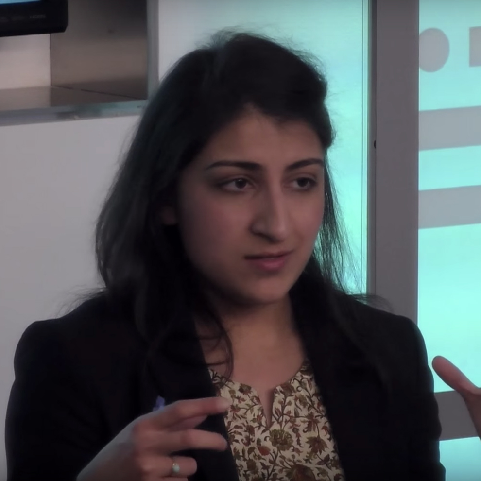 American jurist Lina Khan speaking on a panel about Amazon and antritrust law. More information about the event here.